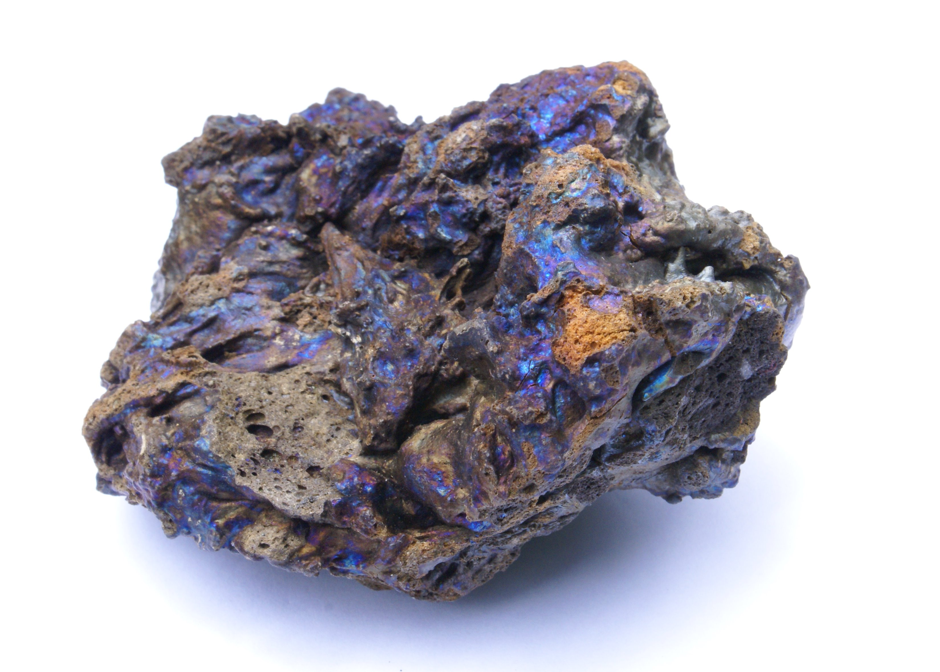 Basaltic scoria (about 8 cm large) coming from Amsterdam island ; blue iridescent color could be caused by interferences phenomenon in a thin and smooth layer of hematit (Fe2O3)